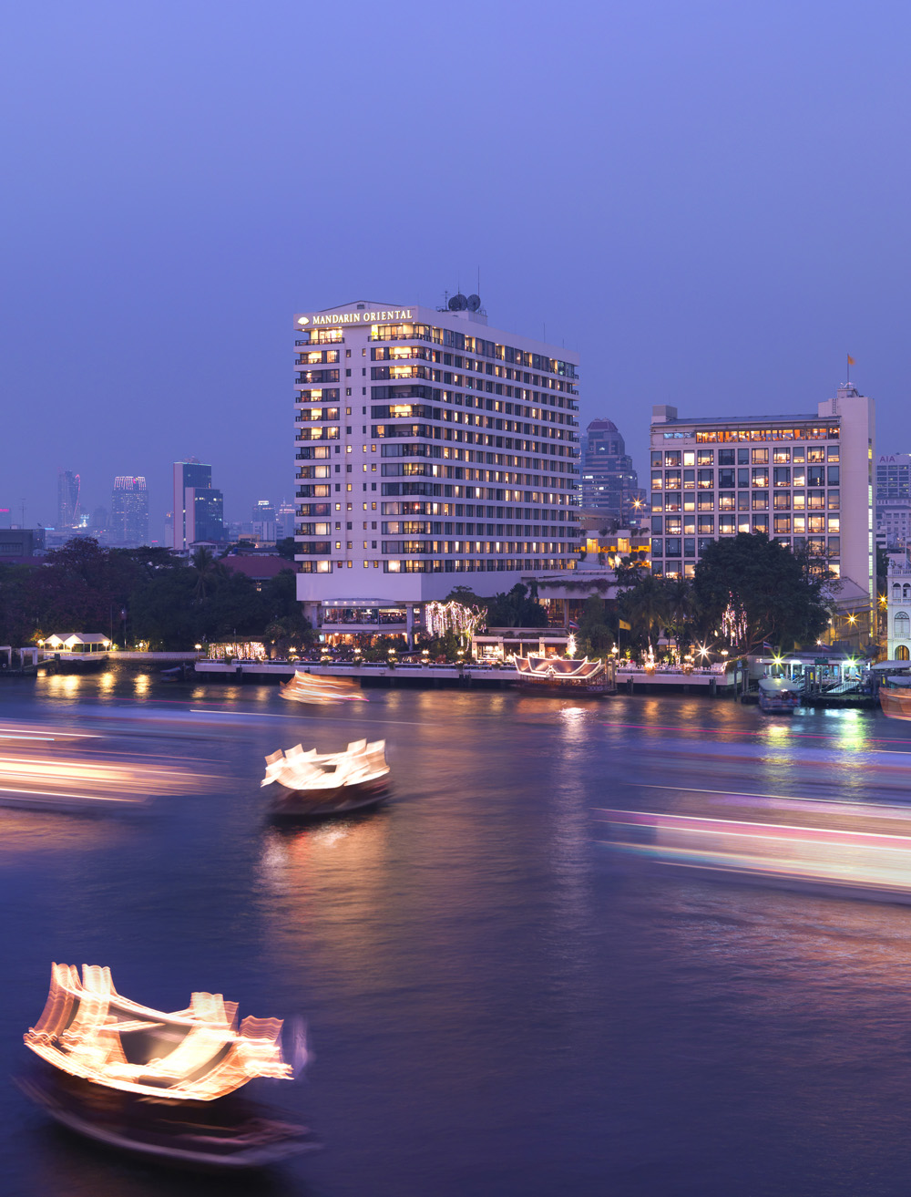 View of Mandarin Oriental, Bangkok exterior